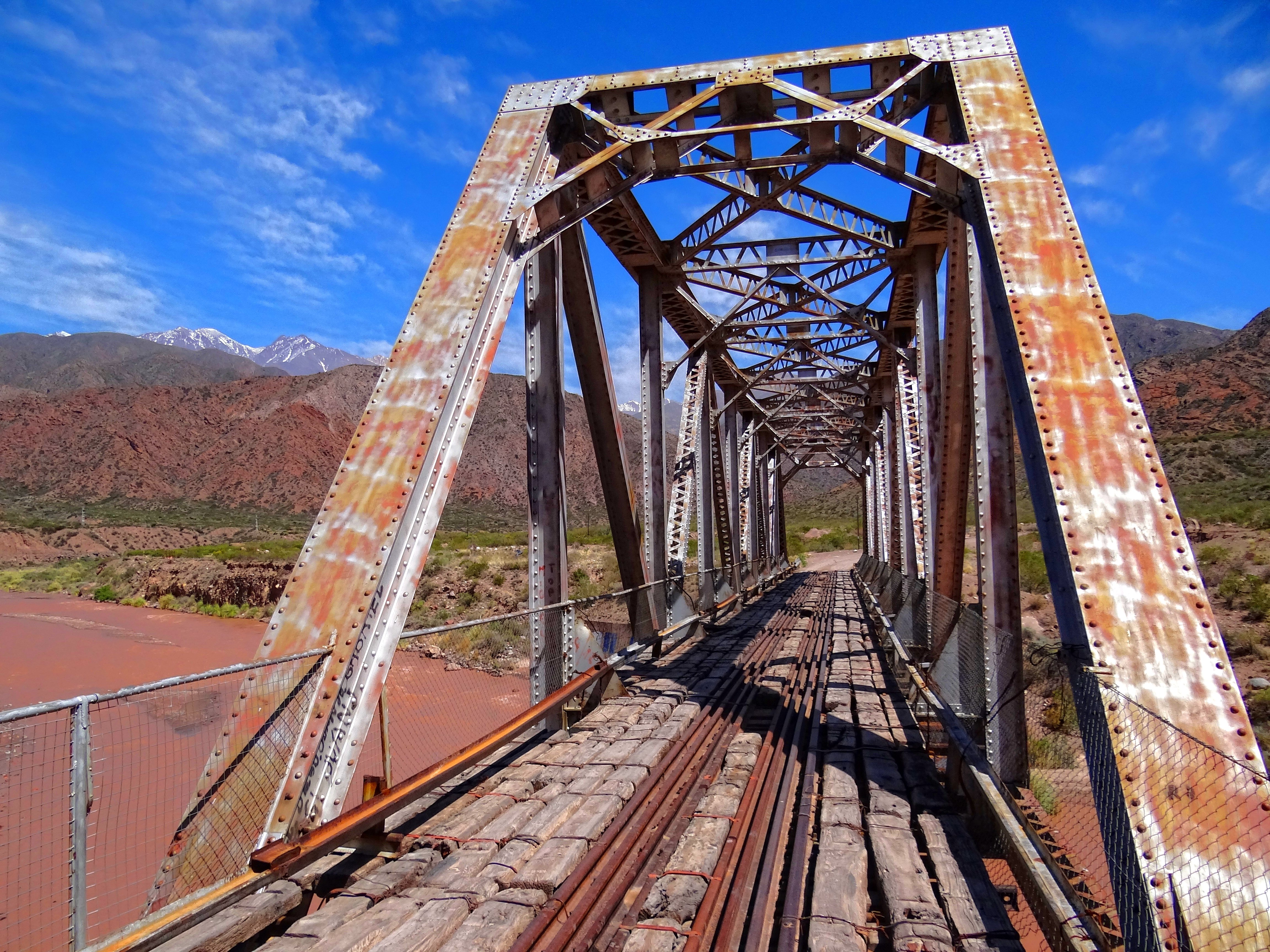 A railway bridge on the old Transandine Railway, now used only by cars and pedestrians. It is located about 60 kilometres from Mendoza, Argentina, measured along the old tracks.